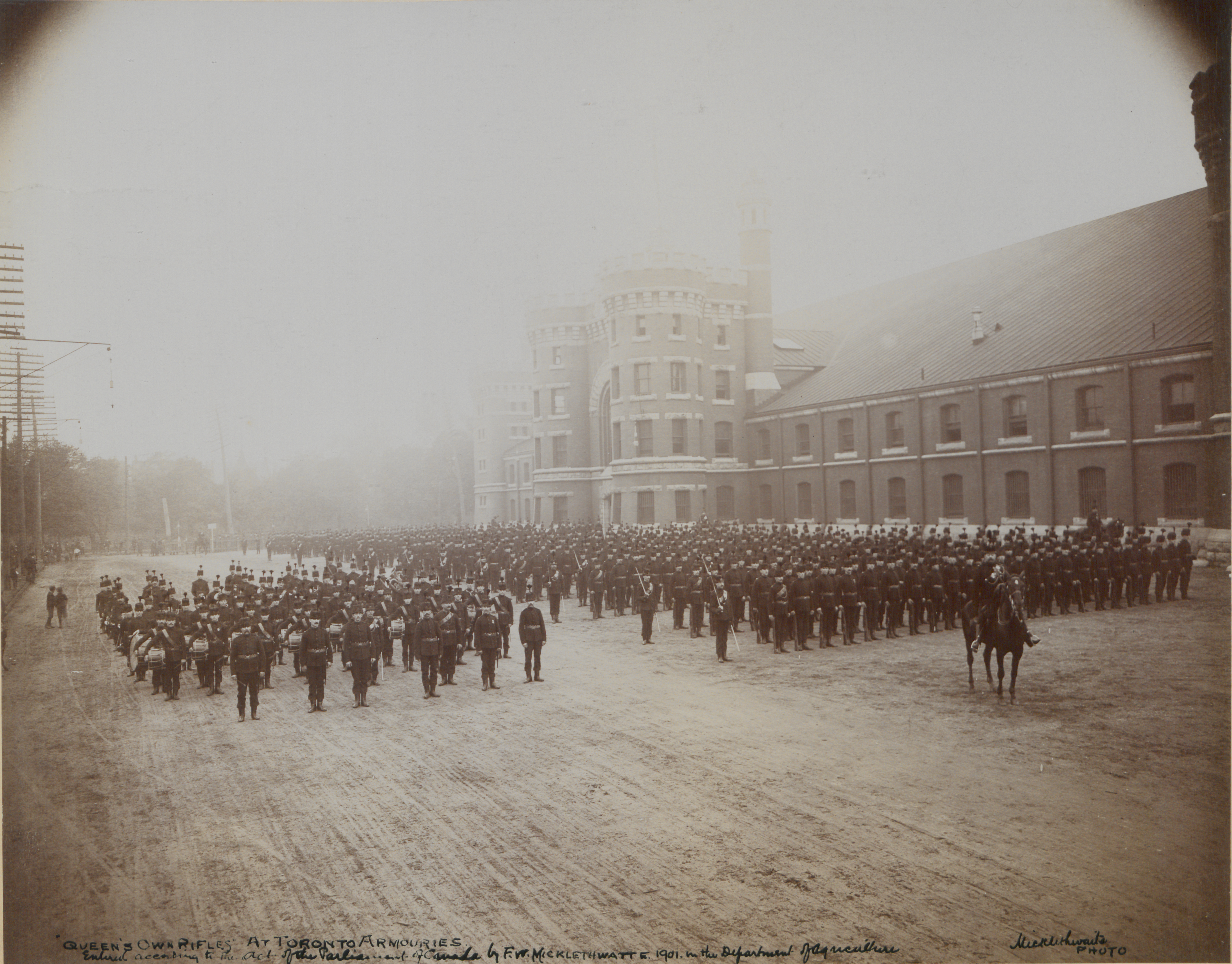 Original caption: "Queen's Own Rifles at Toronto Armories."